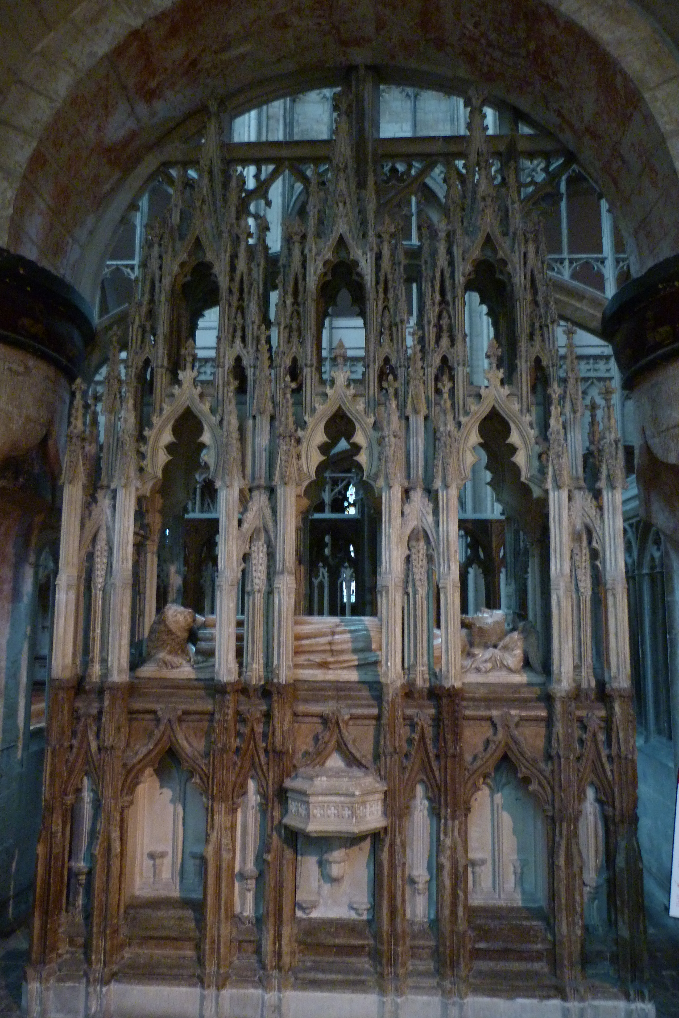 Tomb of Edward II